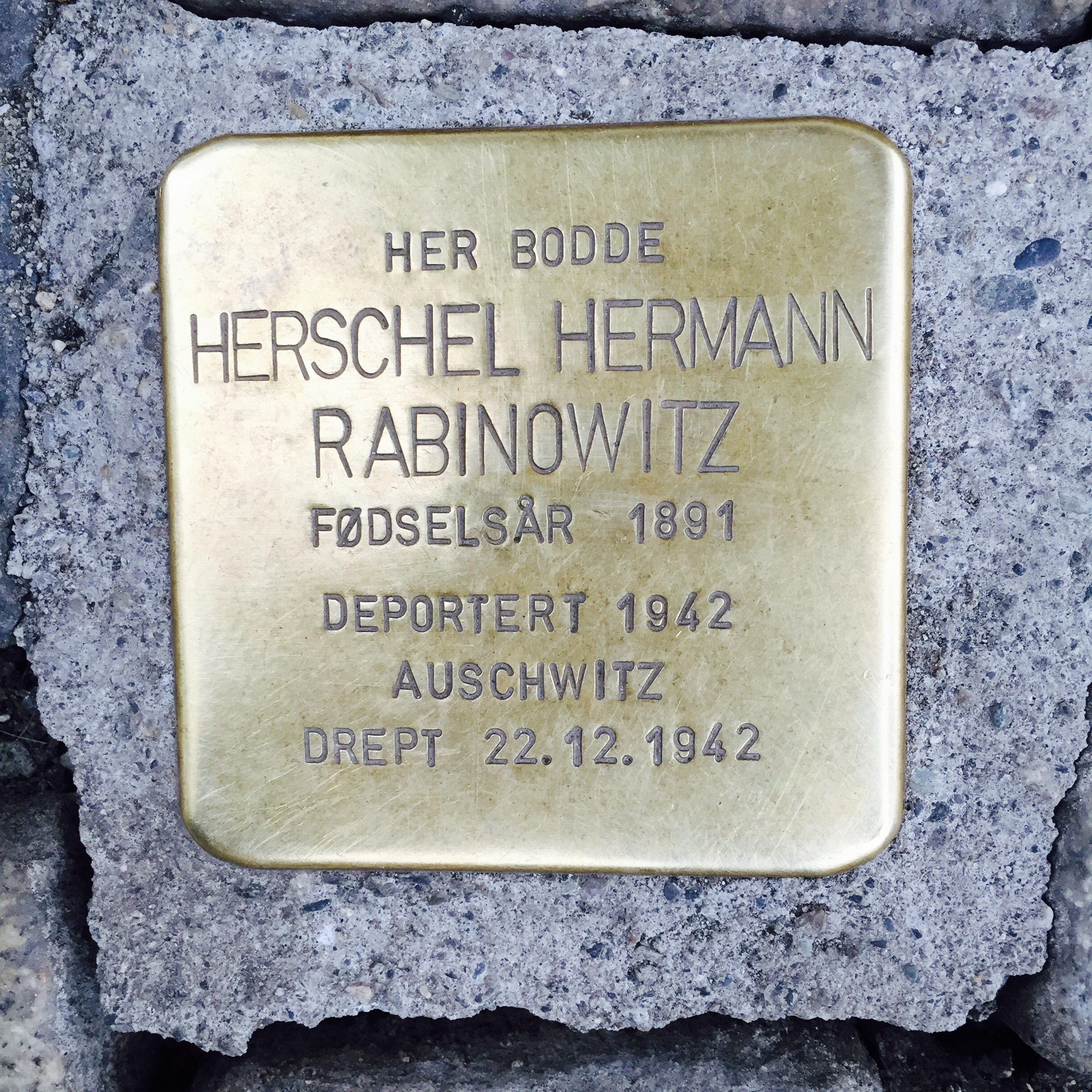 Snublesteinen til Herschel Hermann Rabinowitz i Bergen